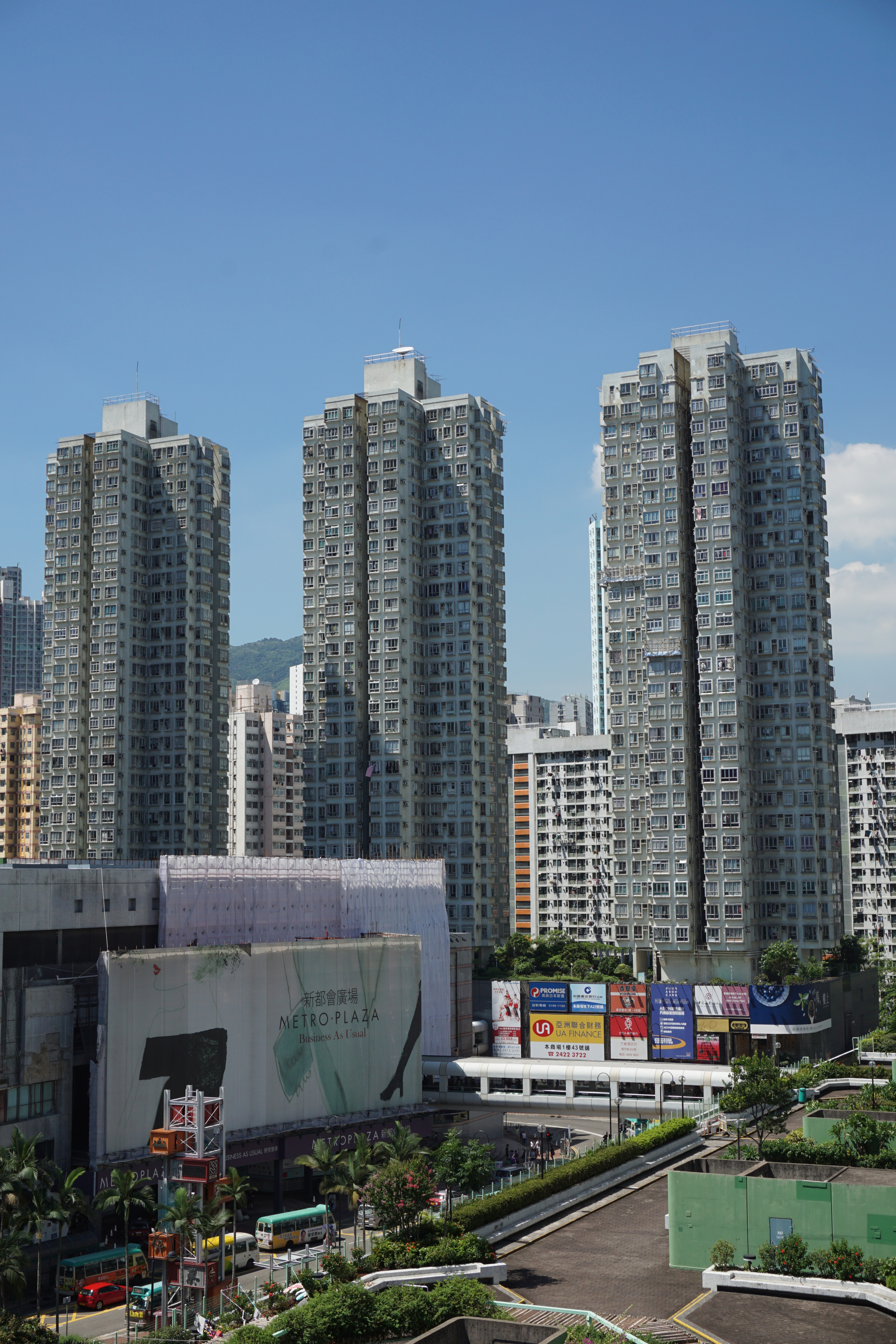 Kwai Chung Plaza, Hong Kong.